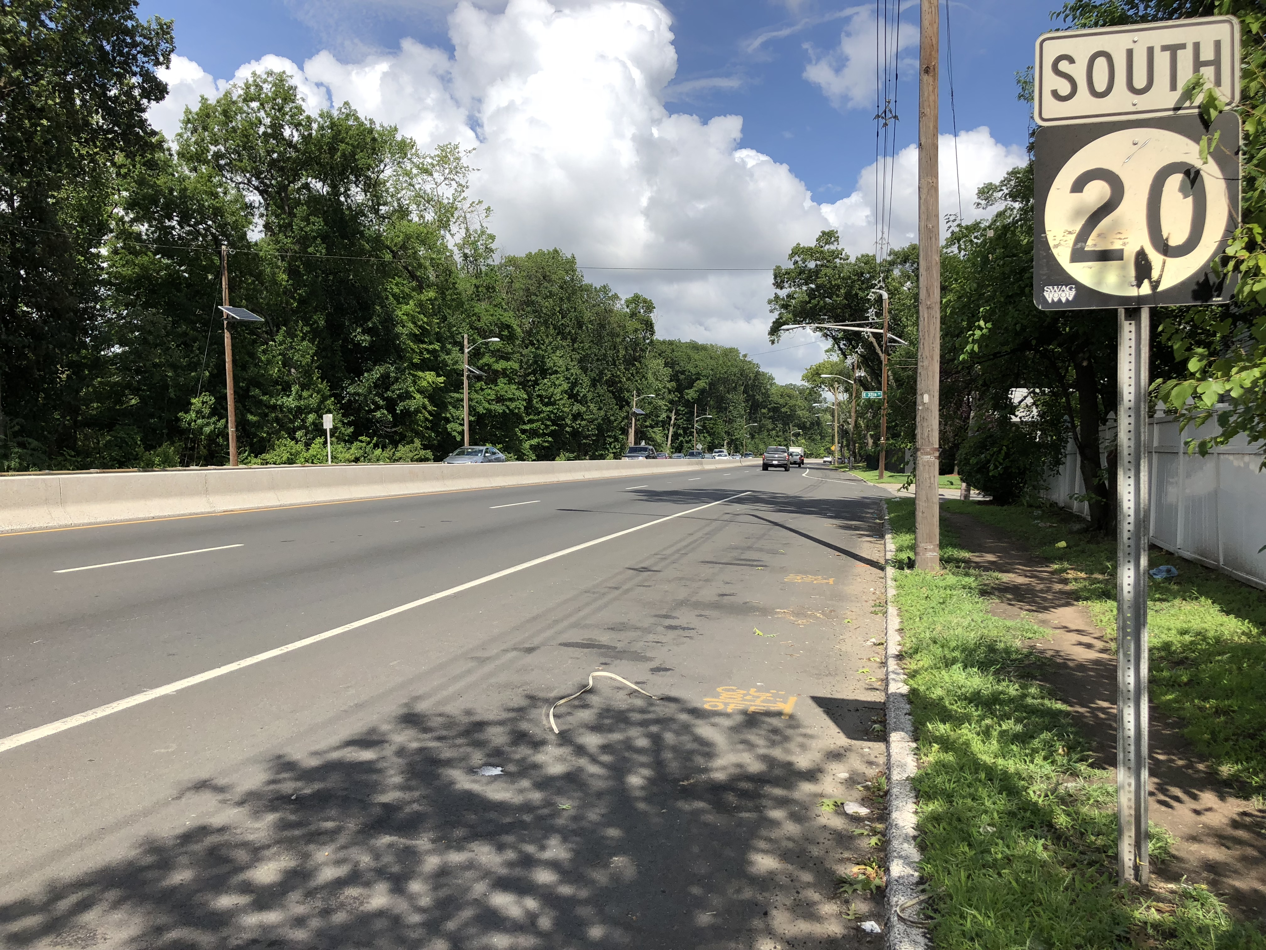 View south along New Jersey State Route 20 (McLean Boulevard) between 36th Street and 37th Street in Paterson, Passaic County, New Jersey